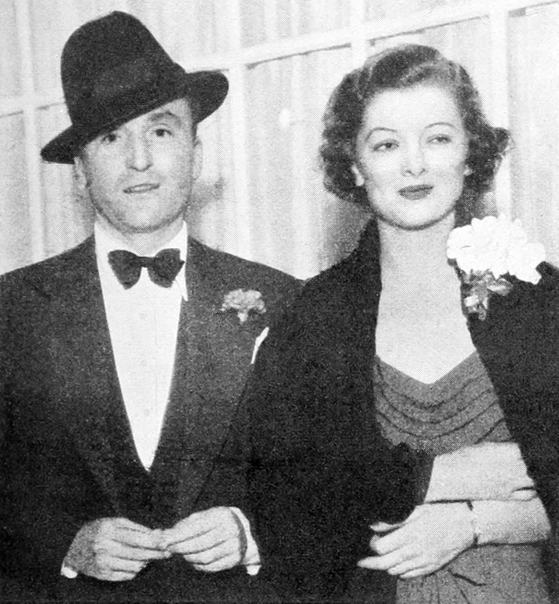 Photograph of Arthur Hornblow Jr. and his wife Myrna Loy